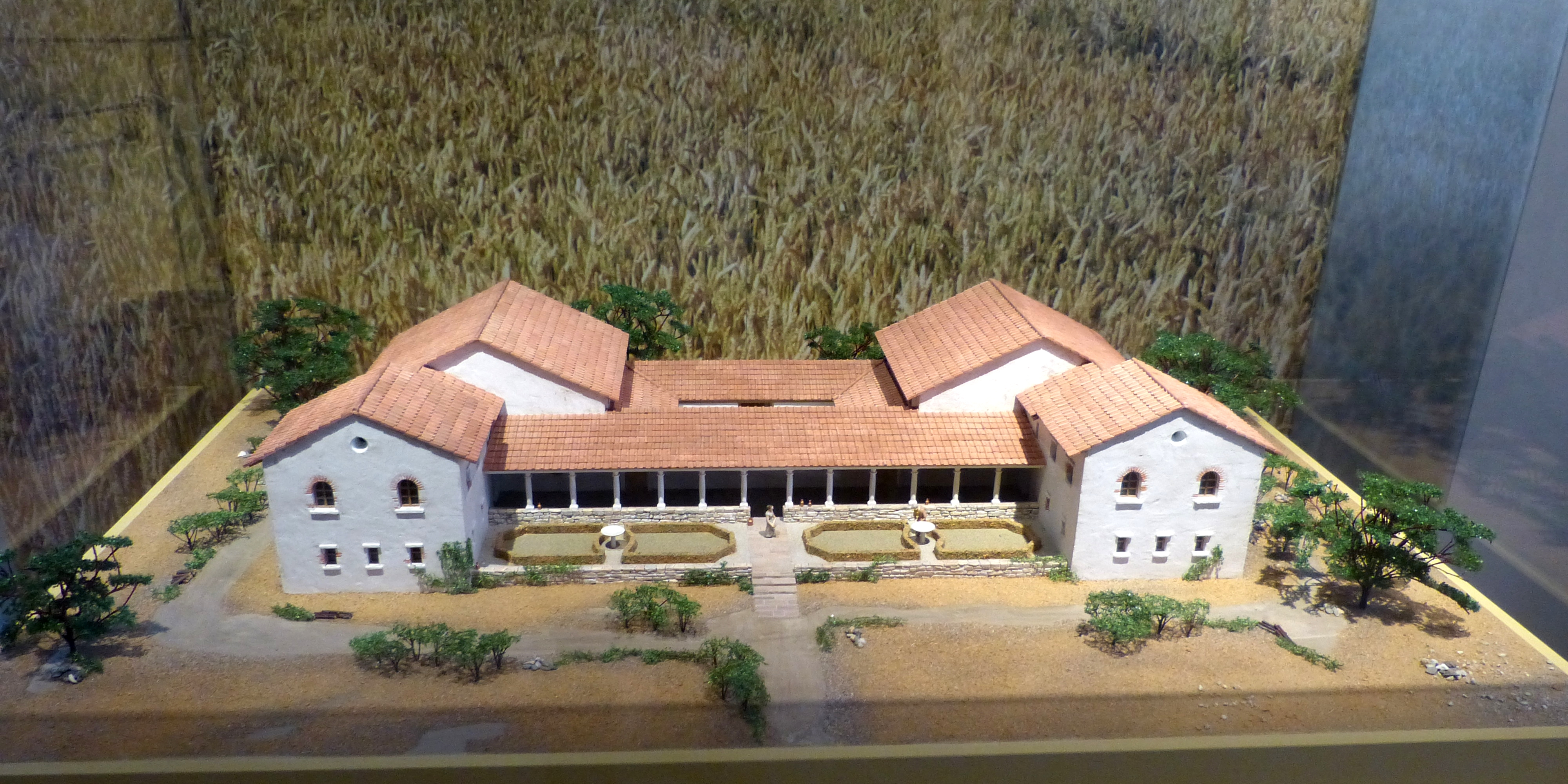 Straubing ( Lower Bavaria ). Gäubodenmuseum: Reconstruction of an Ancient Roman villa rustica ( 2nd century AD ) at Alburger Hochweg.